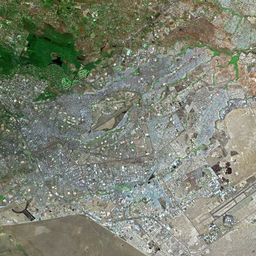 Nairobi by SPOT Satellite